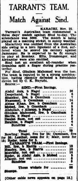 The news was published on November 23, 1935 in Daily Sydney Morning Herald